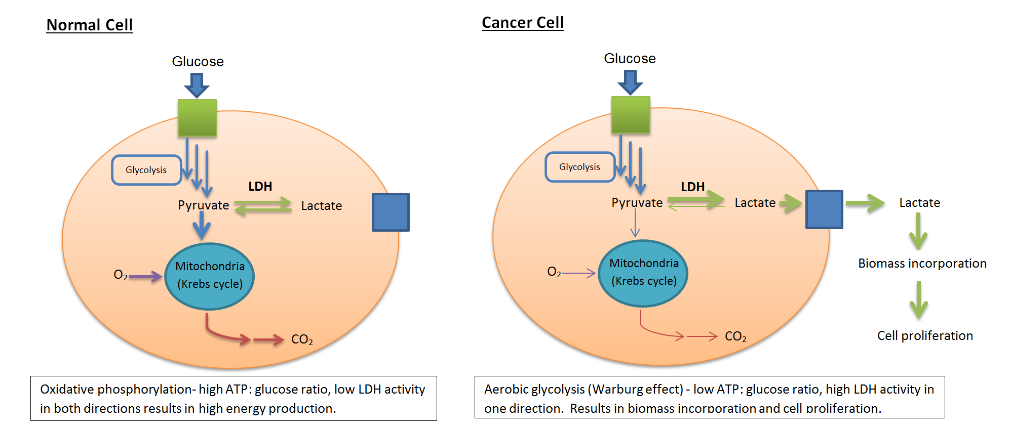 Comparison of LDH activity in normal and cancerous cell metabolisms